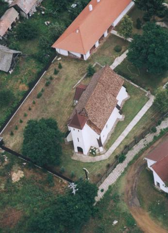 Nyírbéltek Hungary aerialphotography This is a photo of a monument in Hungary, Identifier: 8342